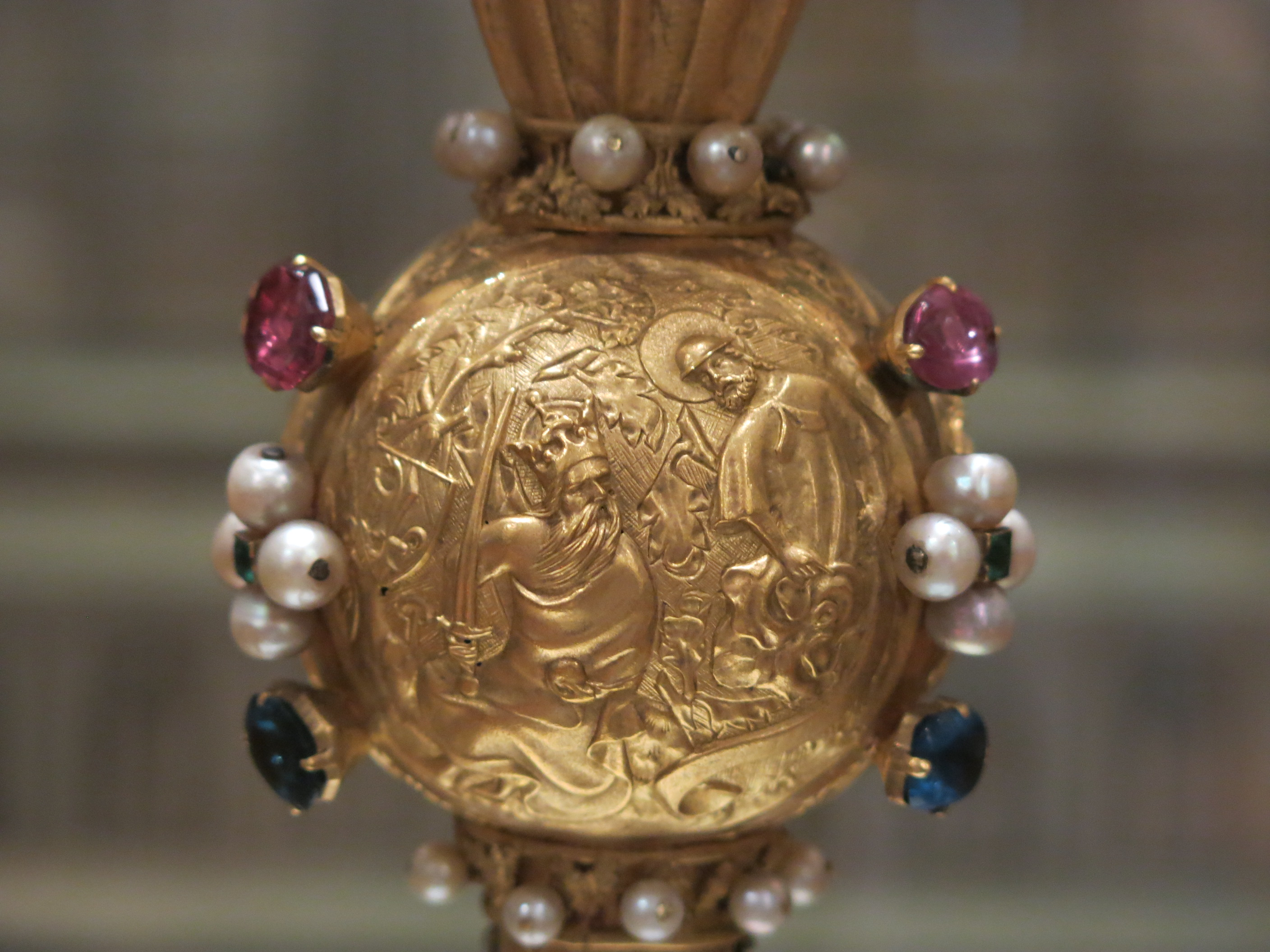 Sceptre of the French king Charles V - The knot (=the ball under the statue at the top) with an apparition of Saint-James to the king Charlemagne. Louvre museum (Paris, France).